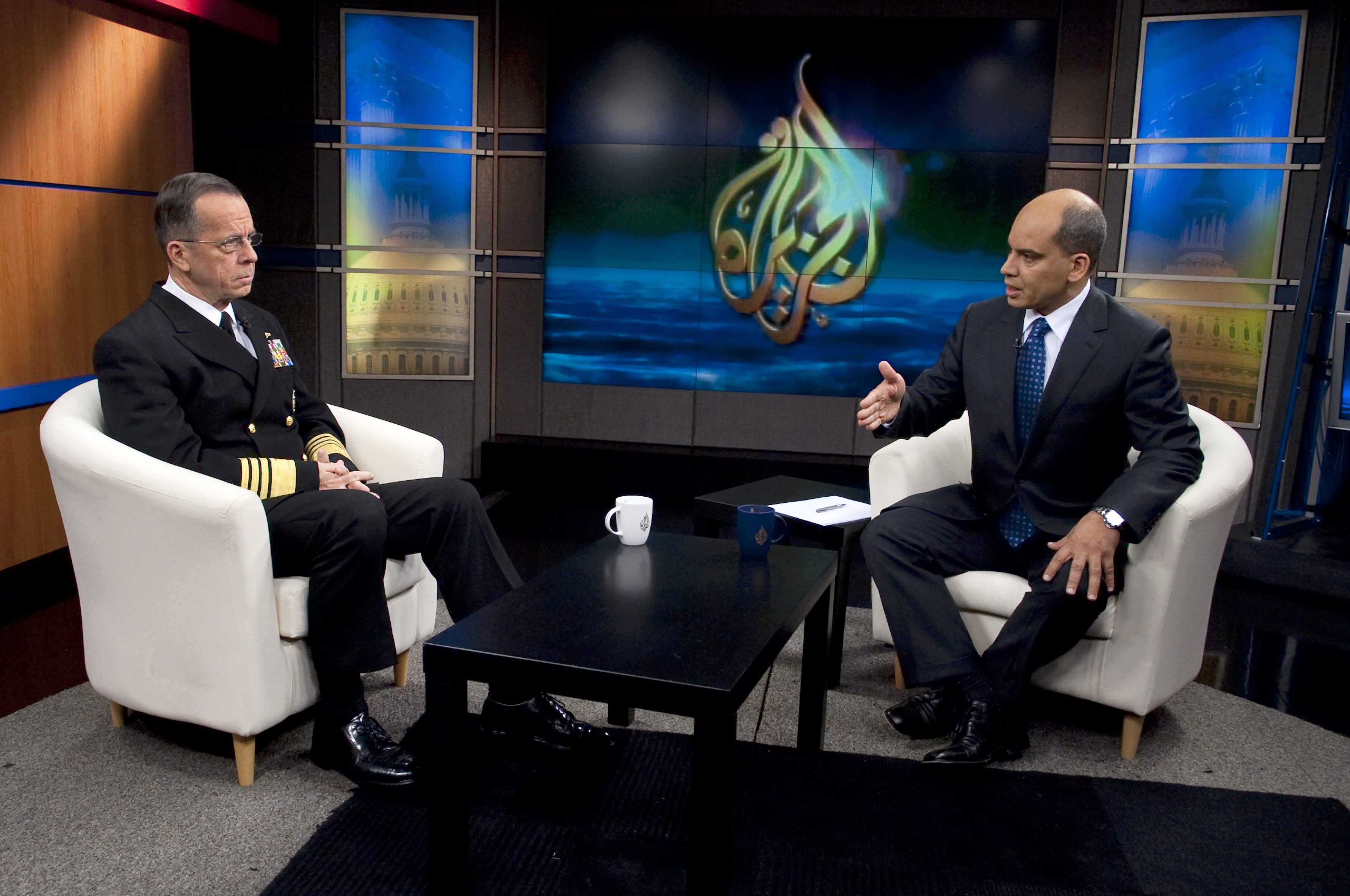 Navy Adm. Mike Mullen, chairman of the Joint Chiefs of Staff is interviewed by Al Jazzeera's Abderrahim Foukara in Washington, D.C., Dec. 3, 2009. Mullen spoke to the Arab language network to explain President Barack Obama's decision to send an additional 30,000 troops to the war in Afghanistan. (DoD photo by Mass Communication Specialist 1st Class Chad J. McNeeley/Released)